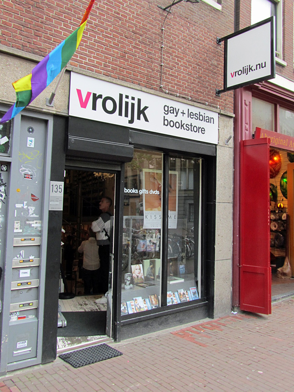 The former LGBT bookstore Vrolijk, which was located at Paleisstraat 135 in Amsterdam from 1989 until 2017.